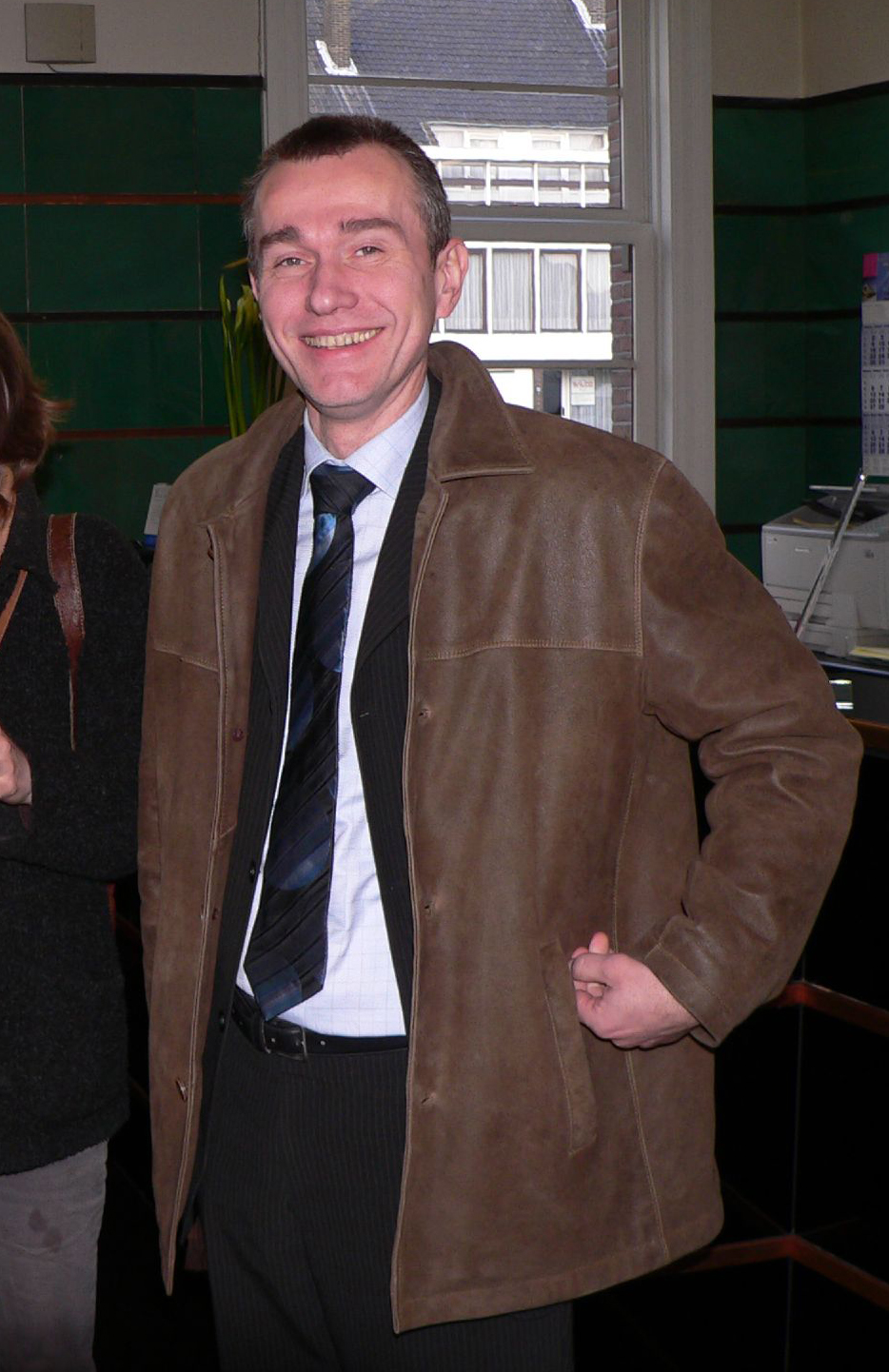 Frank Vandenbroucke, Flemish Minister for Education.